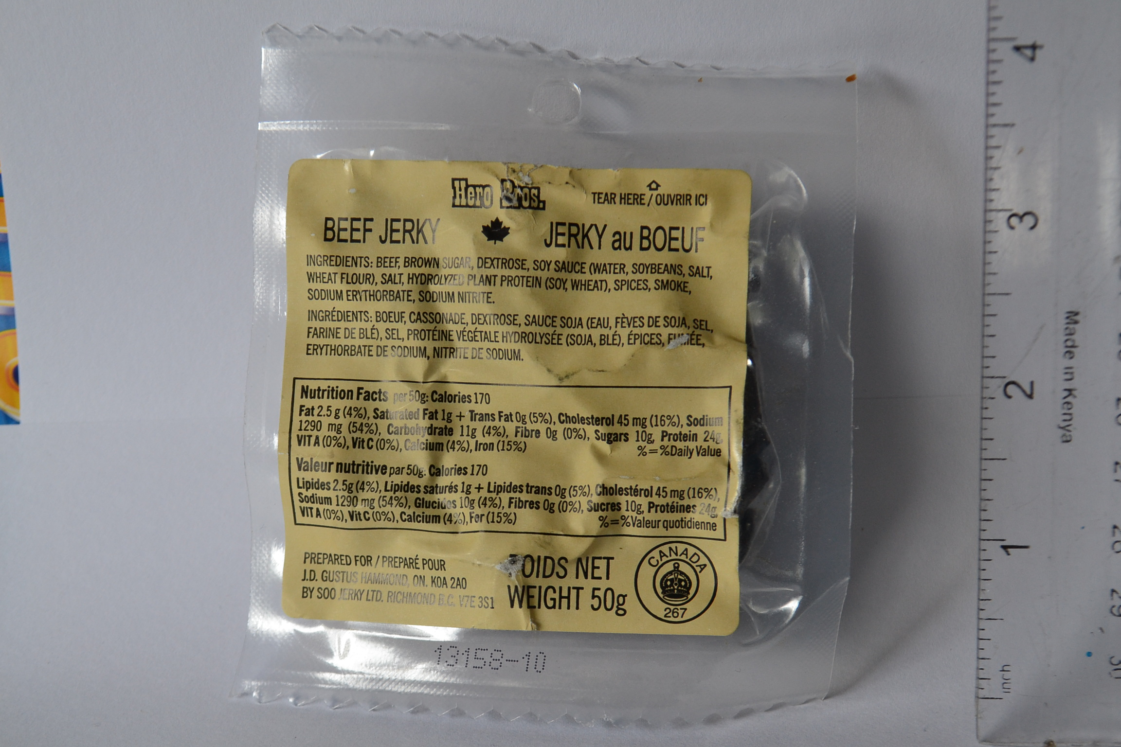 Front view of a package of beef jerky included in some Canadian combat rations, or Individual Meal Pack. Taken from a meal issued in 2015.